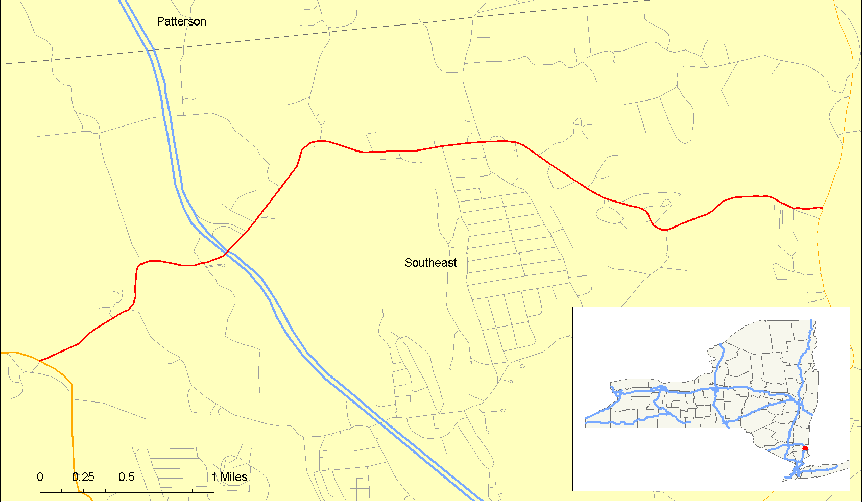 Map of New York State Route 312